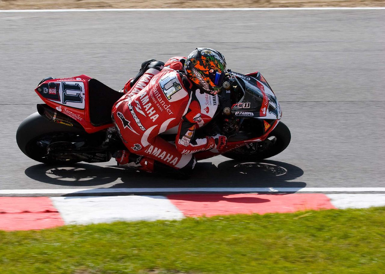 WSBK Round 10 Brands Hatch 2007